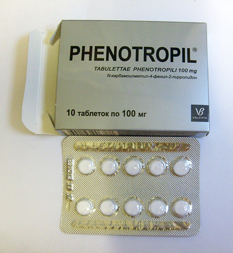 Phenotropil as sold in Russia. Opened pack with blister inside.